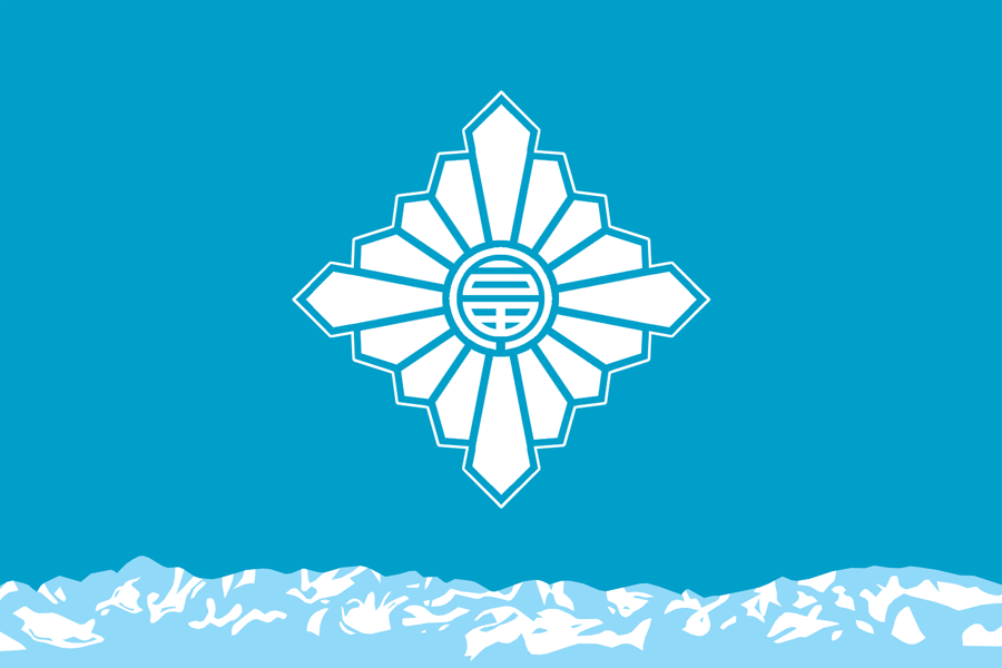 Flag of Toyama, Toyama